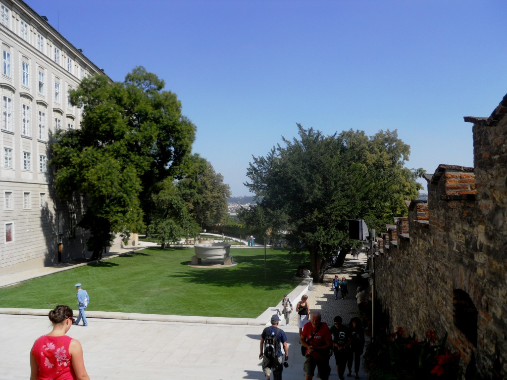 Rajská zahrada, Prague castle